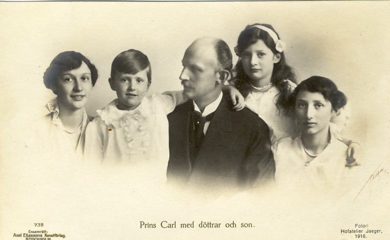 Prince Carl of Sweden, Duke of Västergötland and his children: Margaretha, Märtha, Astrid and Carl Bernadotte